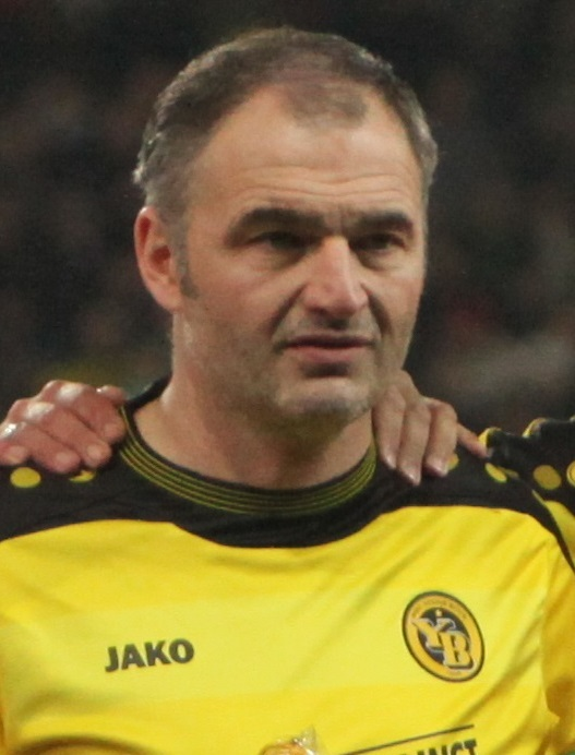 Football against poverty 2014 - Stéphane Chapuisat